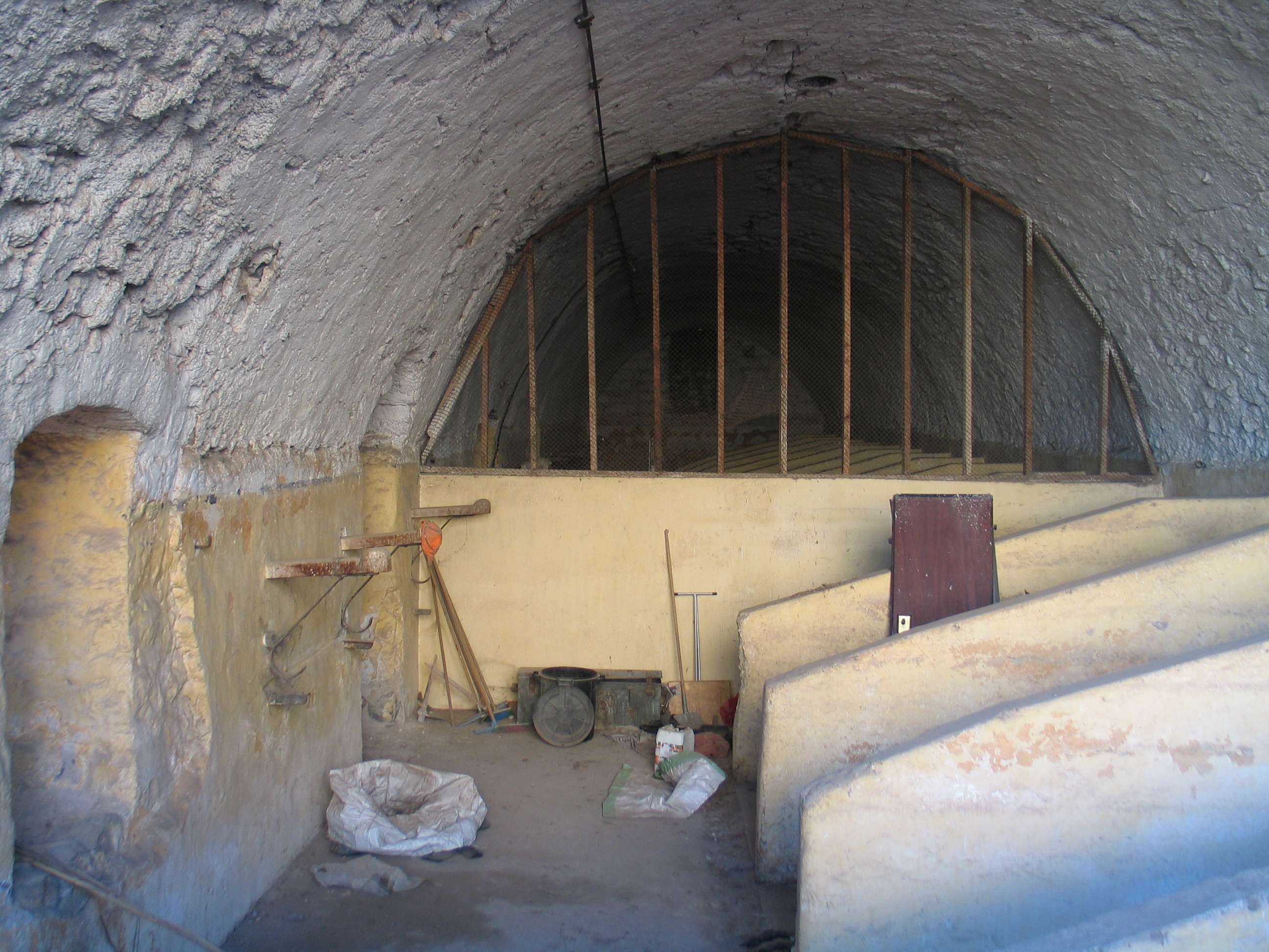 Tiberias, Israel - Saraya.